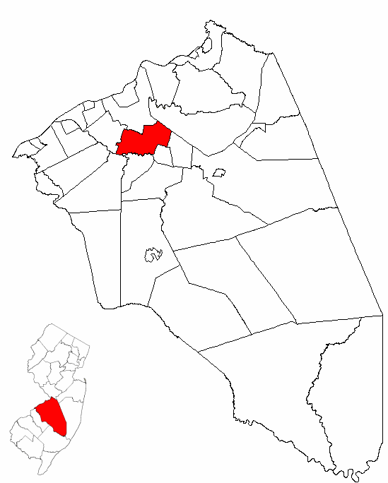 Map of Burlington County highlighting Westampton Township